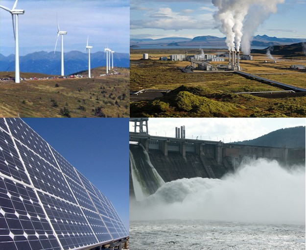 a collage about renewable energy. see at the source images' descriptions for details. top left: Wind power top right: Geothermal power bottom left: Solar panels bottom right: Hydroelectric dam